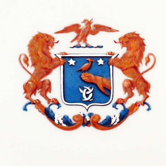 coat of arms of family Godeffroy (Hamburg) painted on bone china by Jacquel, 3 Rue de la Paix, Paris, around 1850